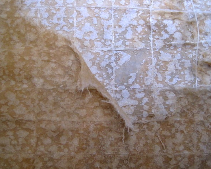 Papyrolin paper. Strong fibers embedded between paper layers prevent it from tearing. Mesh width around 1cm.